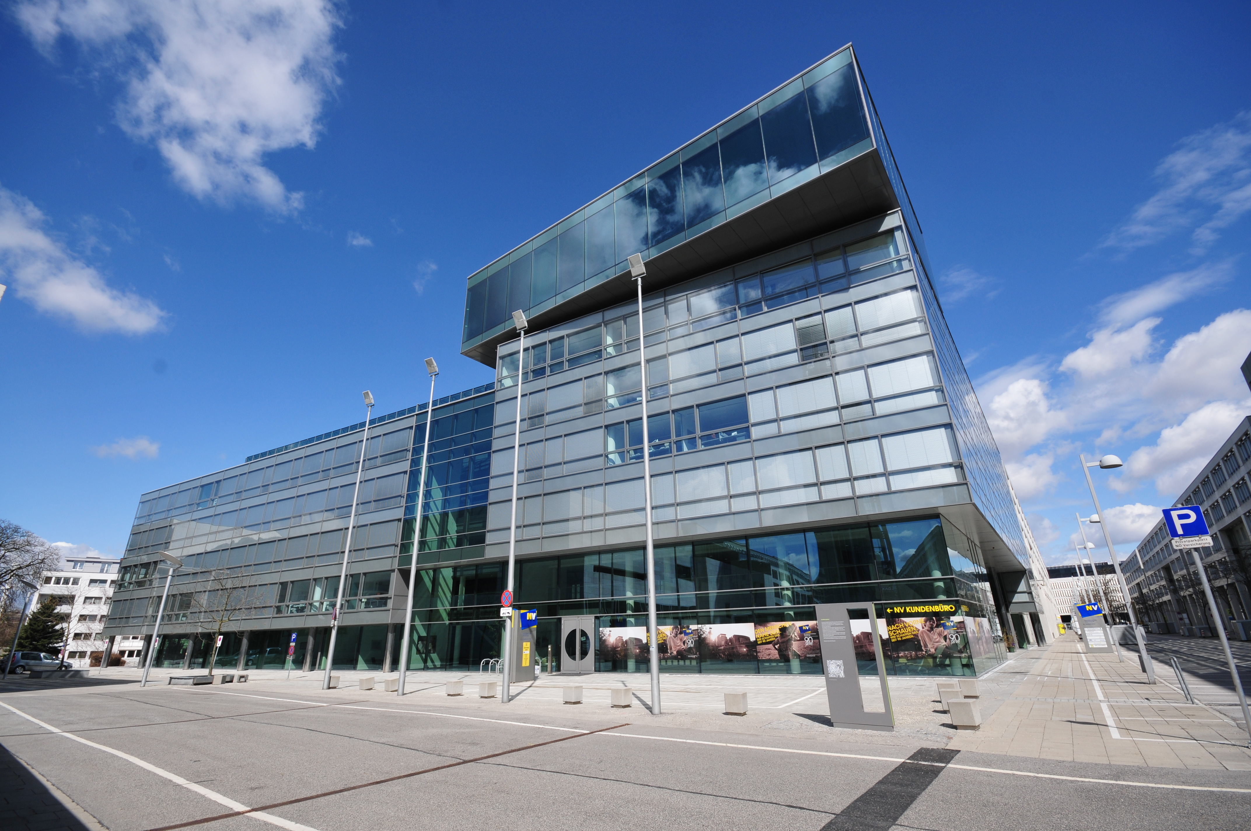 St. Pölten, Austria, Landhausviertel Fotowanderung St. Pölten 13. April 2013 in St. Pölten, Niederösterreich 50mm • Allgemeines • Bahnhof • Domplatz • Fahrräder • Landhausviertel • Rathausplatz